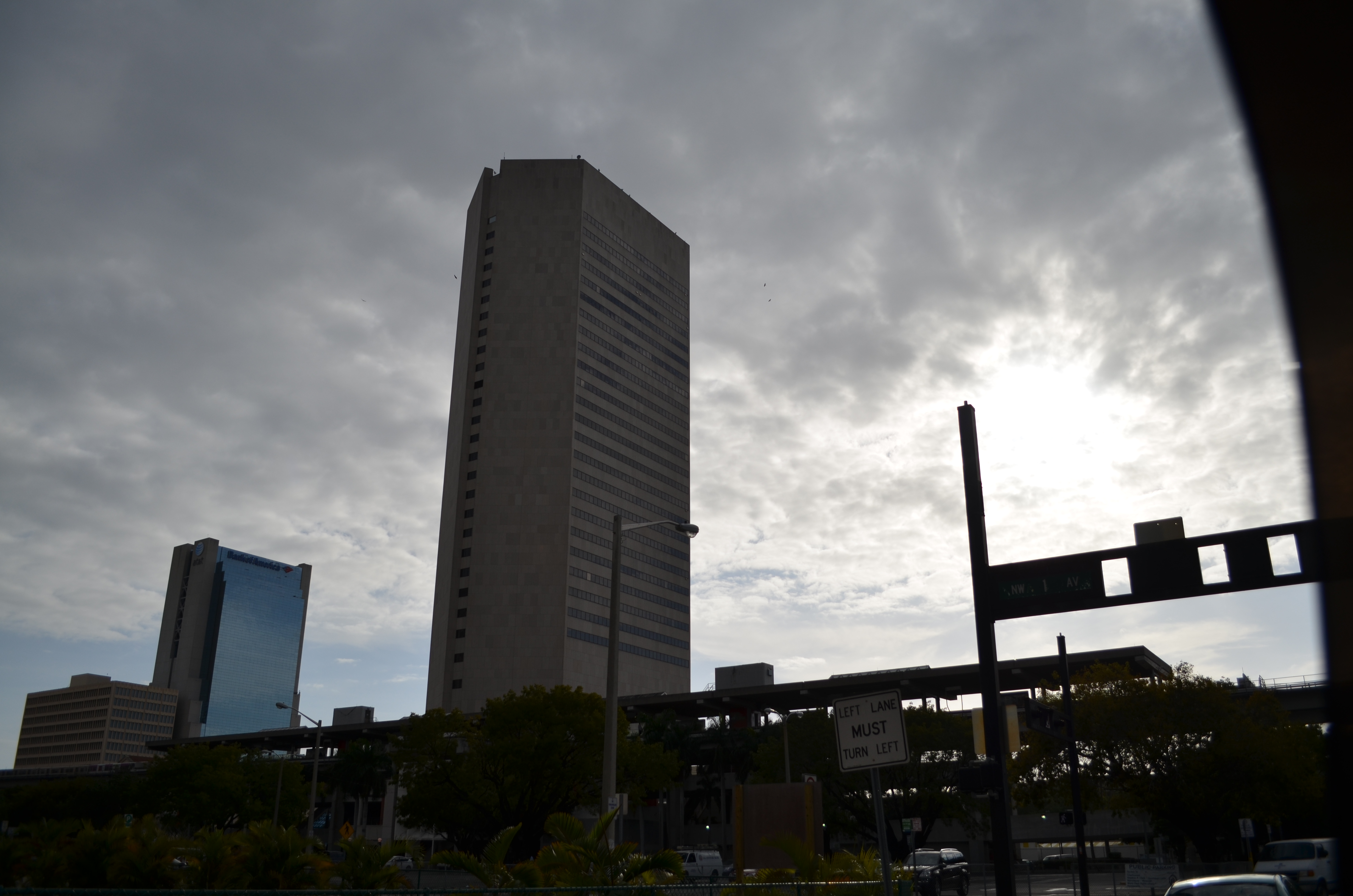 Stephen P. Clark Government Center building from the east, showing the Government Center (MDT station) at the base.